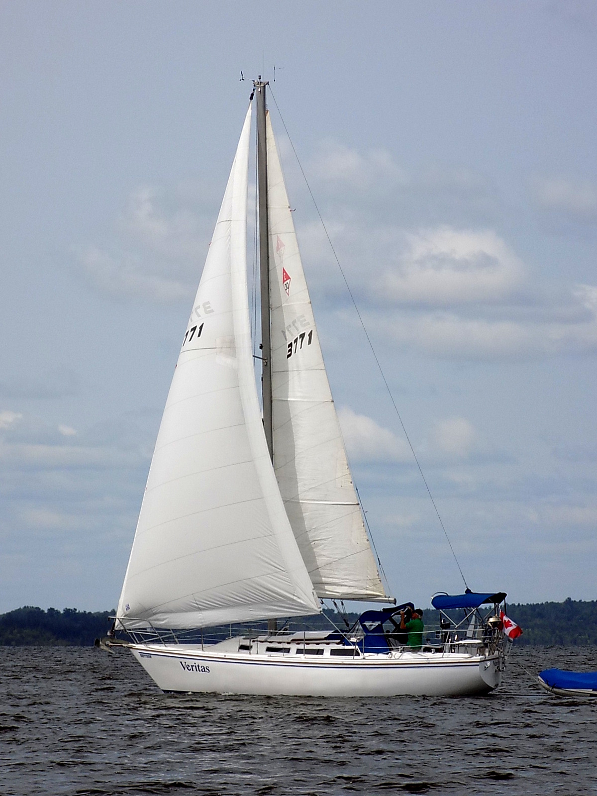 A Catalina 30 sailboat named Veritas.